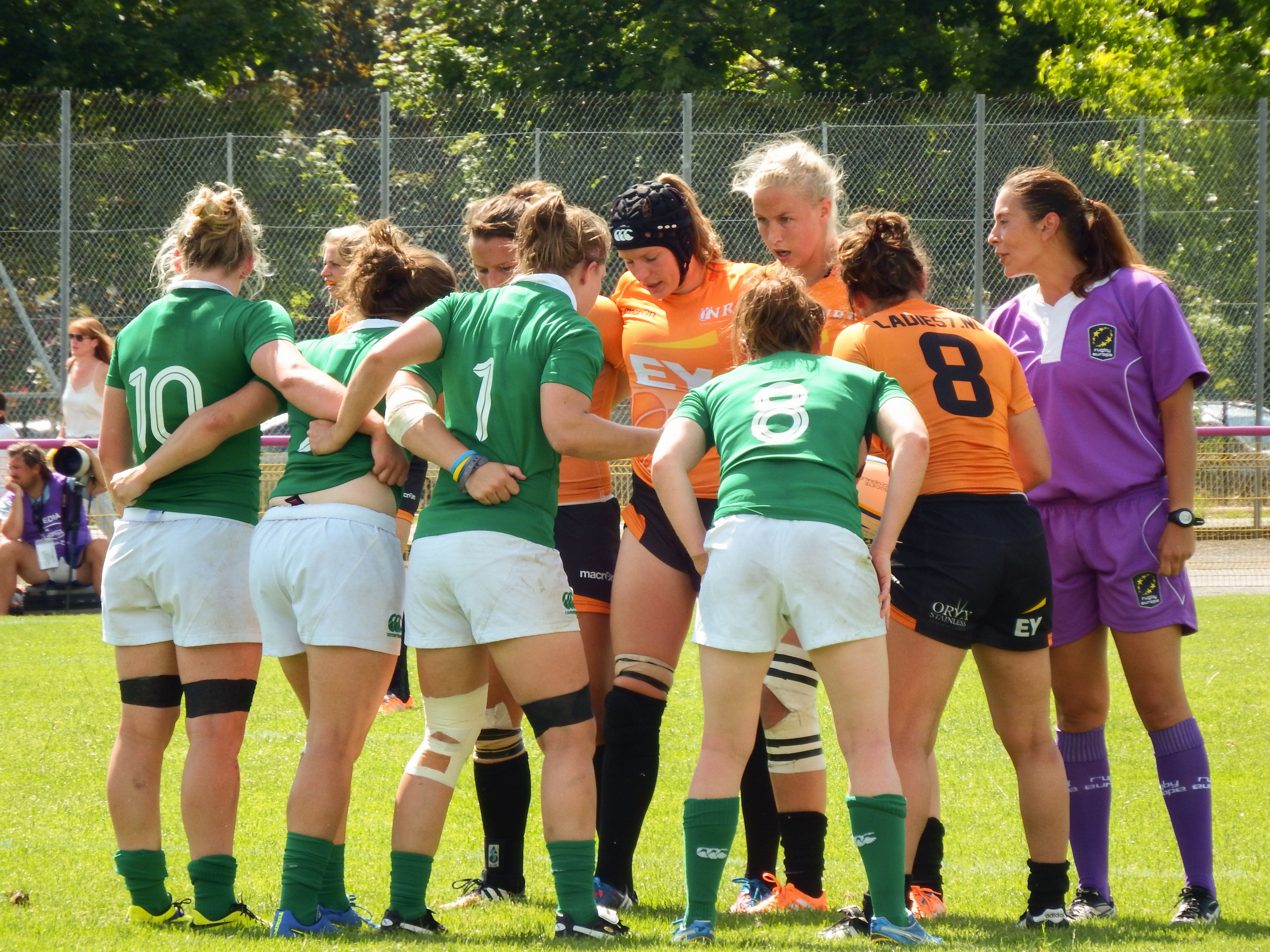 Malemort Sevens 2015 — 21 June 2015, stade Raymond-Faucher. Match between: Ireland — Netherlands